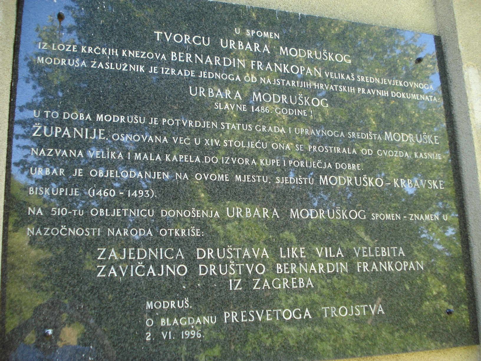 Plaque to prince (knez) Bernardin Frankopan (publisher of Urbar of Modruš in 1486) on the facade of the Church of the Holy Trinity in Modruš, Karlovac County, Croatia